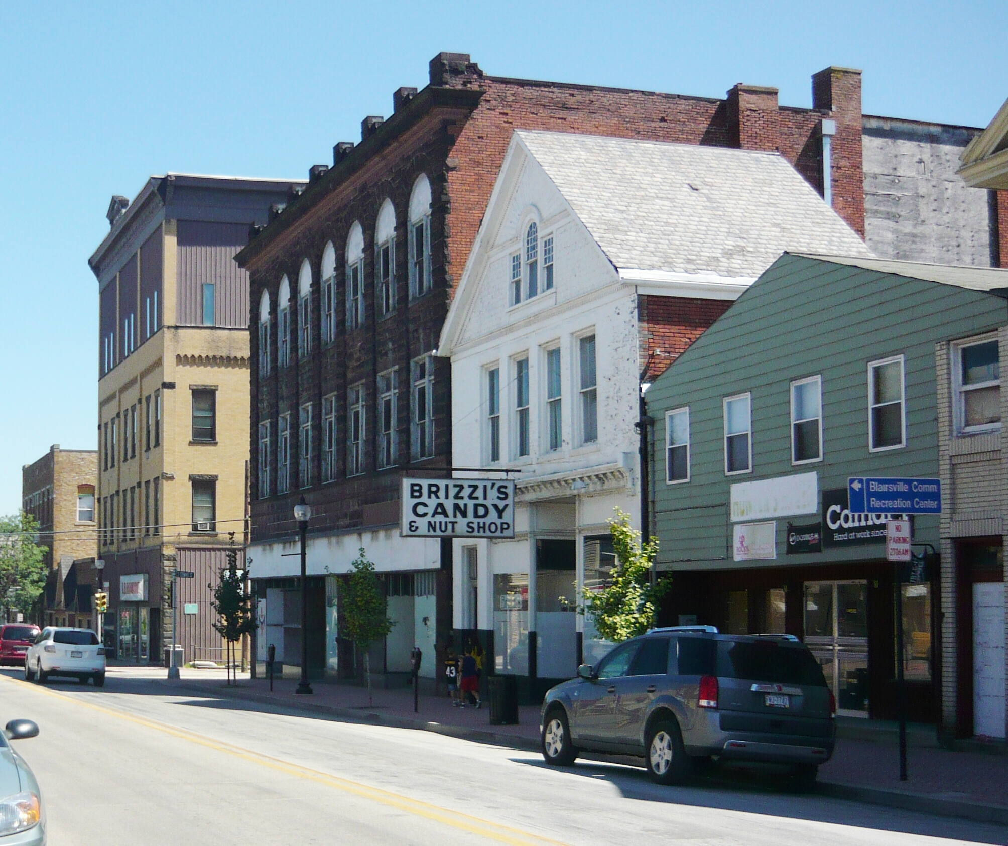 Business district of Blairsville, Indiana County, Pennsylvania. Looking eastward on East Market Street between Walnut Street and Stewart Street. The tall yellow brick building in the distance is the Einstein Block, formerly Einstein Opera House (1904). The dark-colored three story building had been the G. C. Murphy variety store, originally the First National Bank (1903).